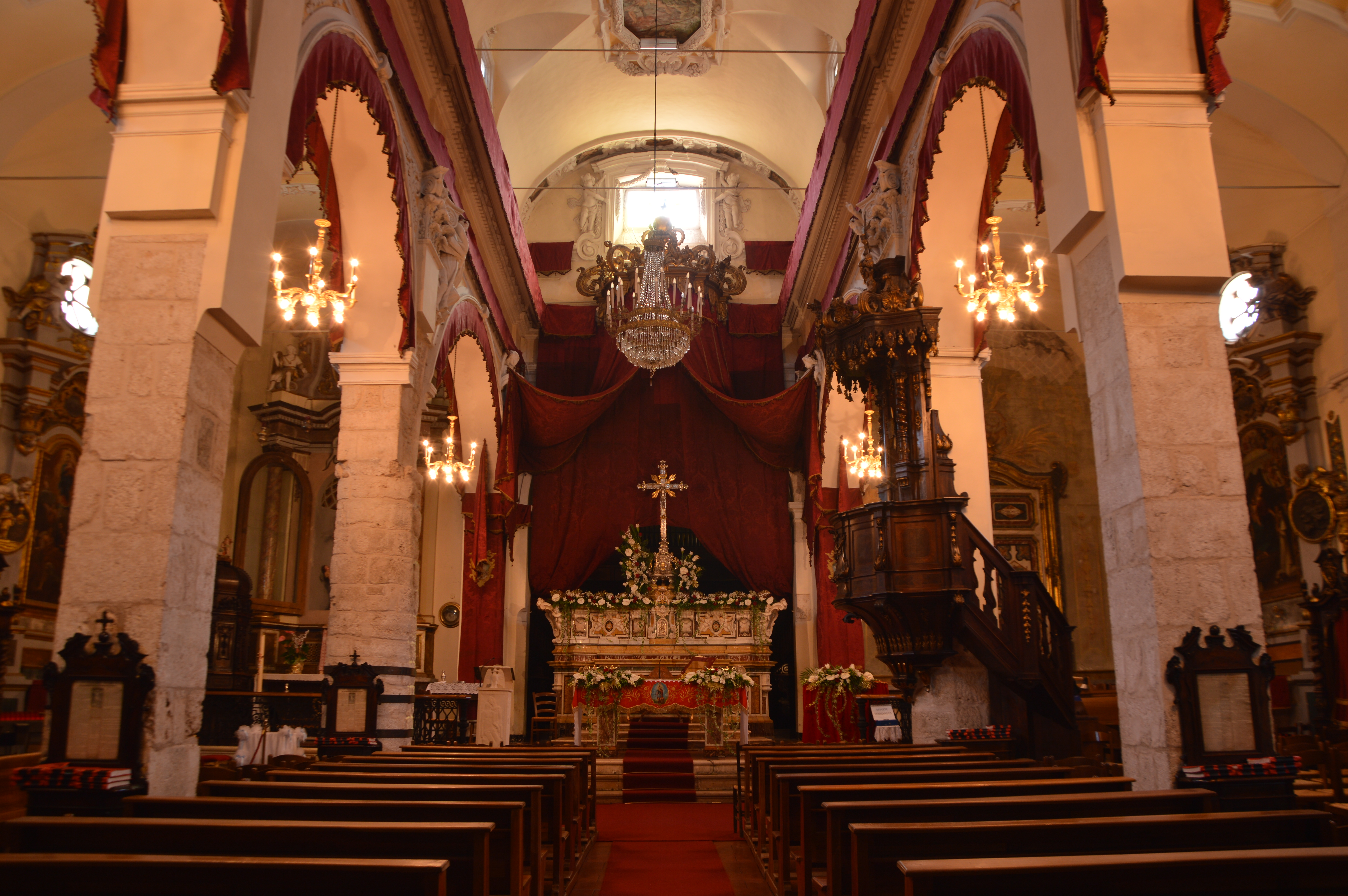 Interno